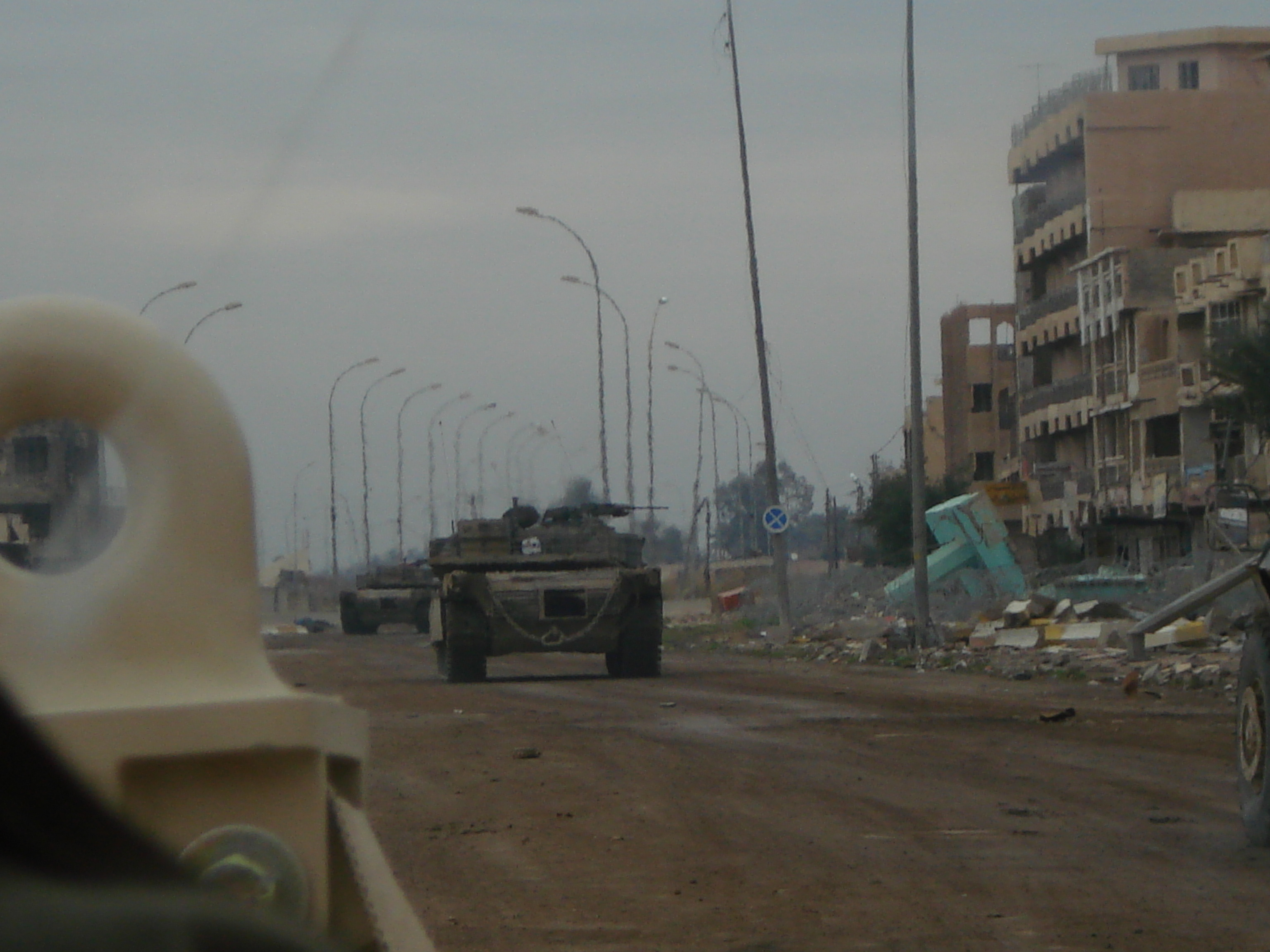 Tank in Ramadi